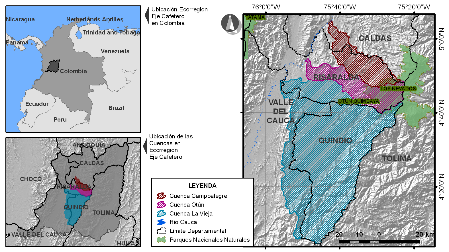 Location of Campoalegre, Otún and La Vieja Basins